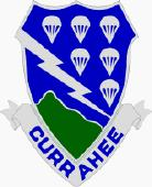 506th Infantry Regiment distinctive unit insignia